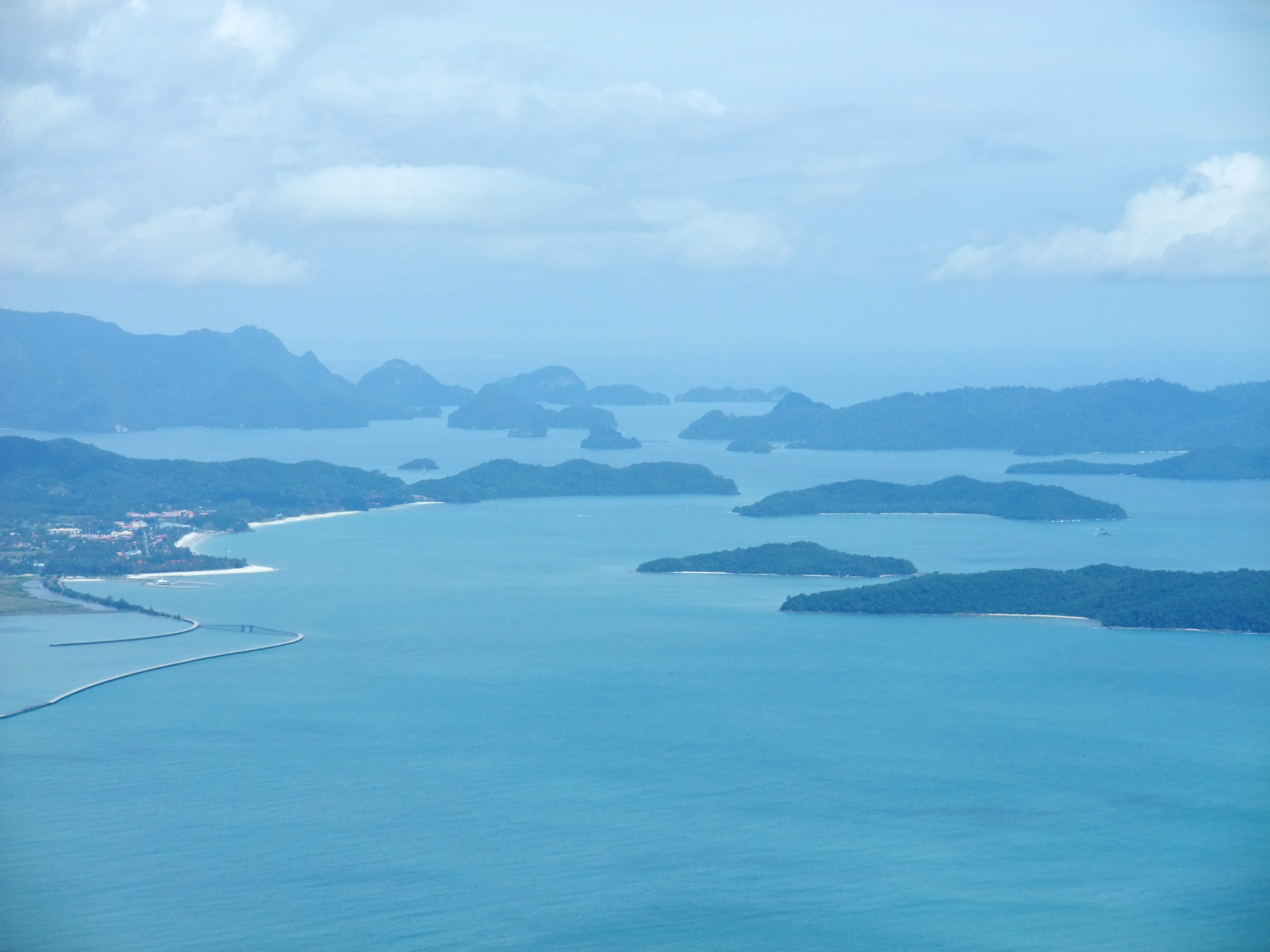 Pantai Cenang on Langkawi, Malaysia